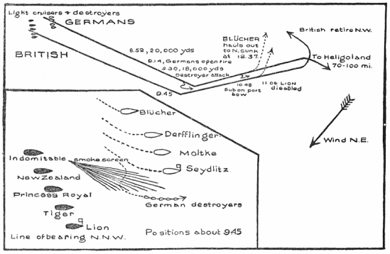 Map showing British and German ships and movements at the Battle of Dogger Bank, 24 January 1915.